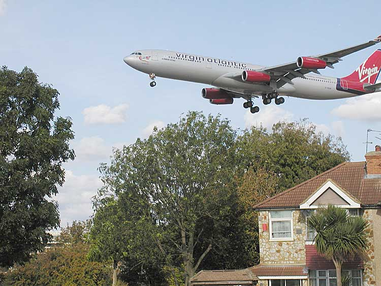 Spotters view of a Virgin Atlantic Airbus A340. The picture was taken from a public field at the end of Myrtle Avenue, a popular area for photographers near the south east corner of London (Heathrow) Airport (England). The field is an excellent spot for aircraft photography if runway 27L is in use. Runways 27L (southern runway) or 27R (northern runway) are used when the wind is from the west or south west. With this wind direction, the aircraft land across the city of London and fly over Hatton Cross underground station. During the daytime, an aircraft lands at Heathrow every 2 - 3 minutes. The majority of these are British Airways flights.